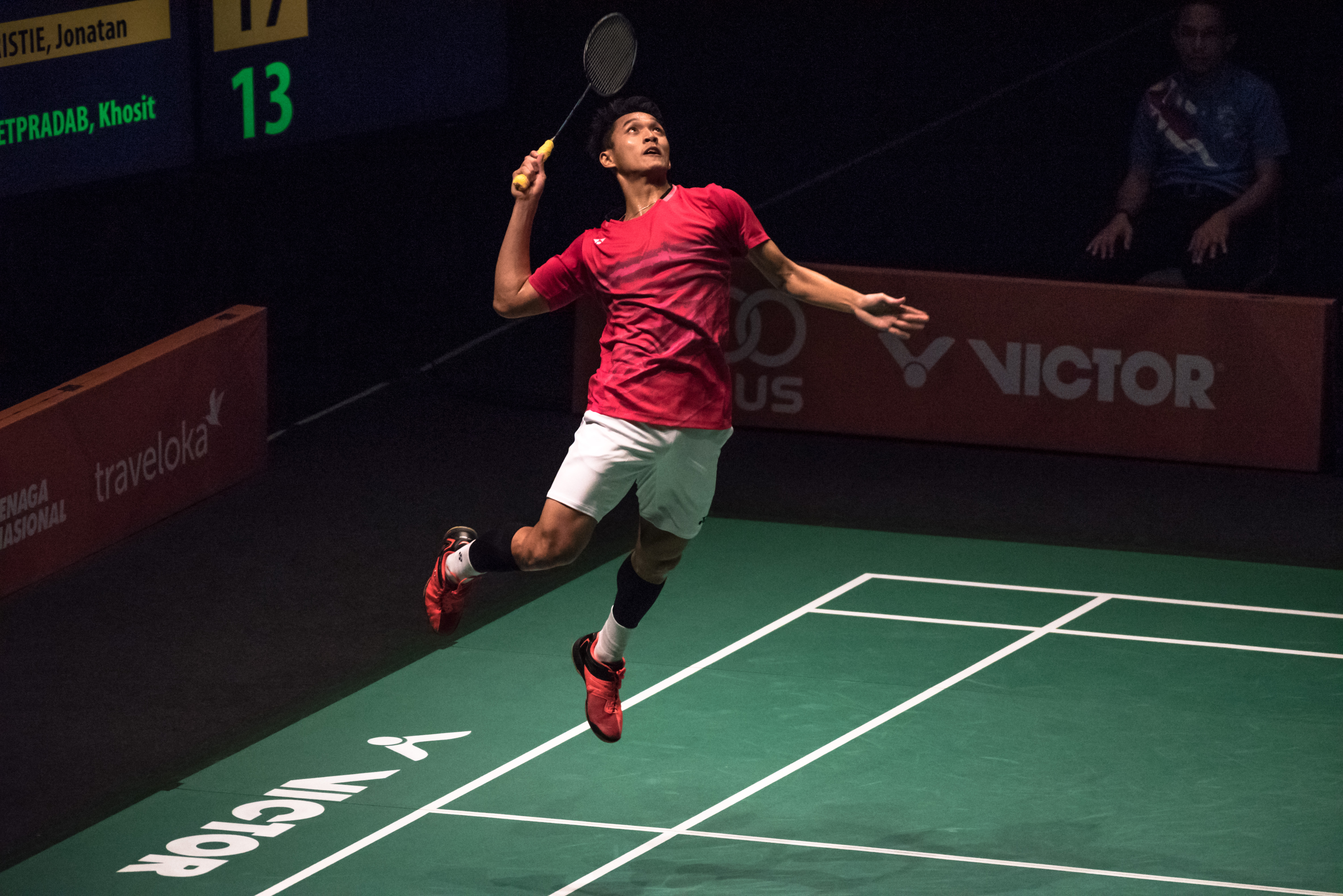 Sea Games Badmintion Final